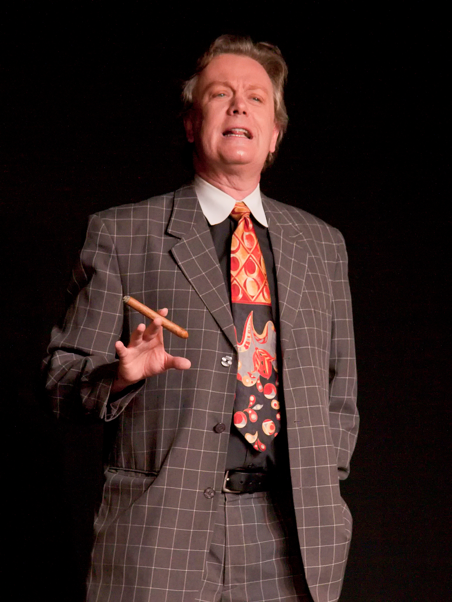 Todd Robbins